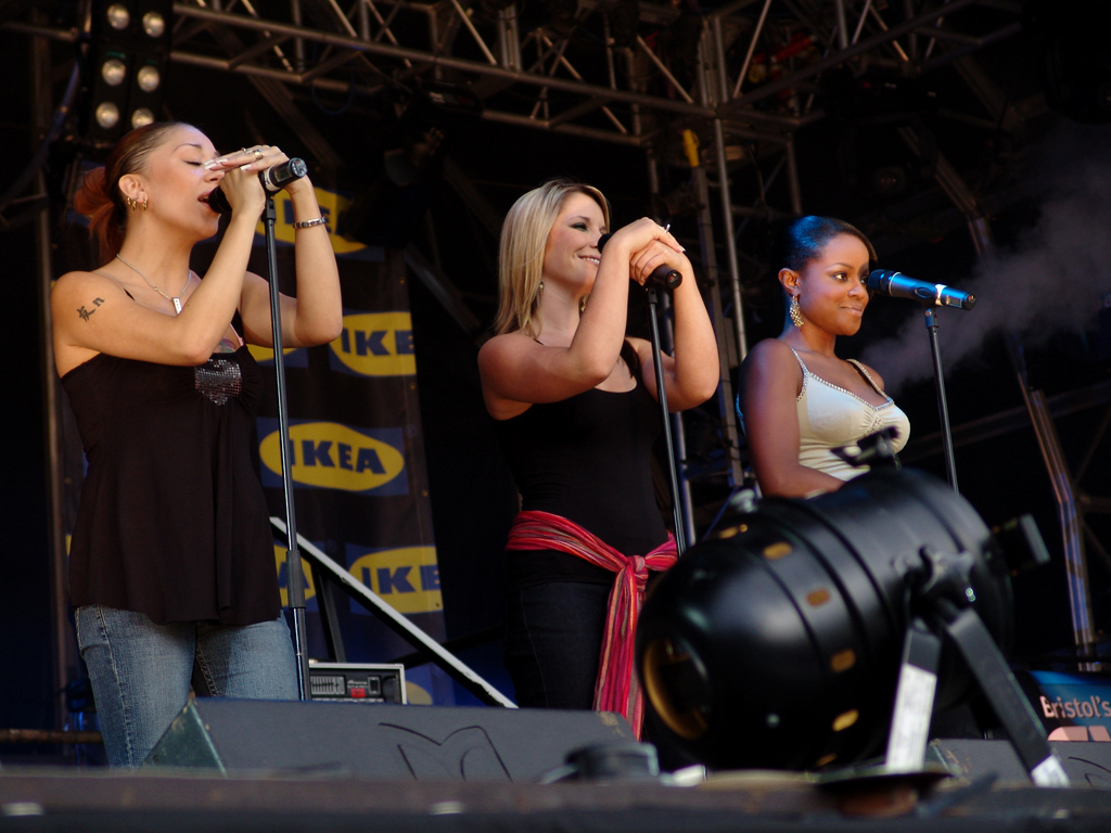 The Sugababes